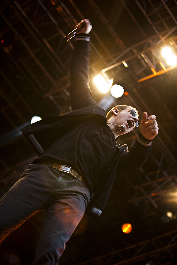 M.Shadows of Avenged Sevenfold, live in Bergen, Norway 2011